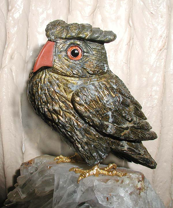 Chalcopyrite owl on a base of quartz crystals. The carving is 2.5 inches high (6 cm). The eye and beak are artificial. Taken by Adrian Pingstone in 2002 and released to the public domain.